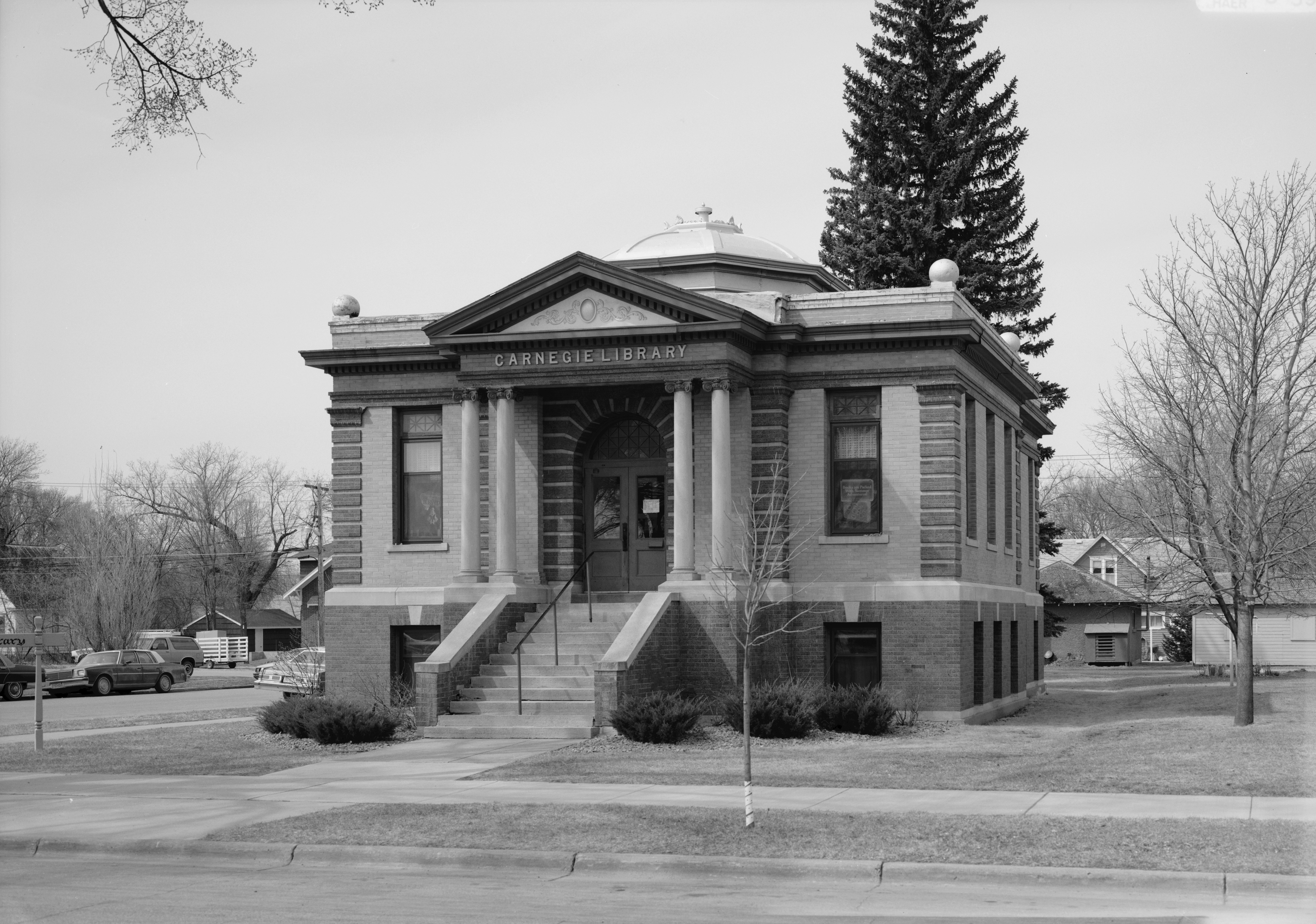 Madison Carnegie Library, 401 Sixth Avenue, Madison, Lac Qui Parle County, MN